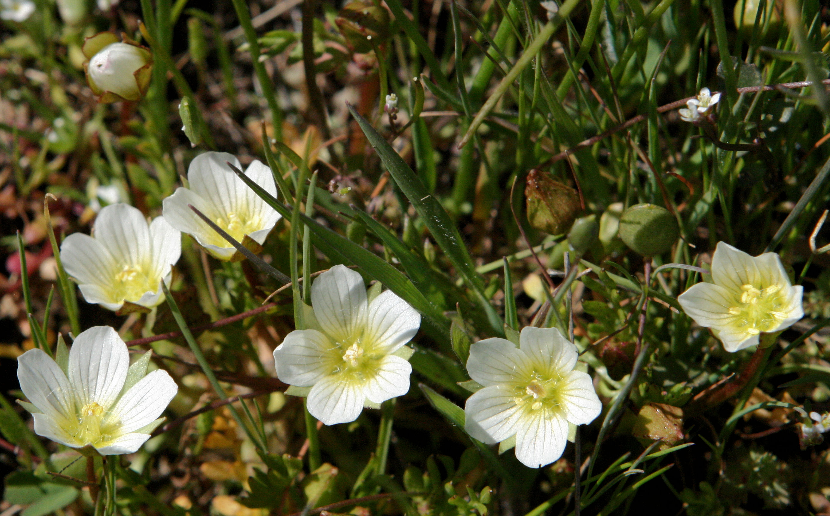 Limnanthes floccosa, subspecies pumila, located near a vernal pool on Upper Table Rock in Jackson County, Oregon.